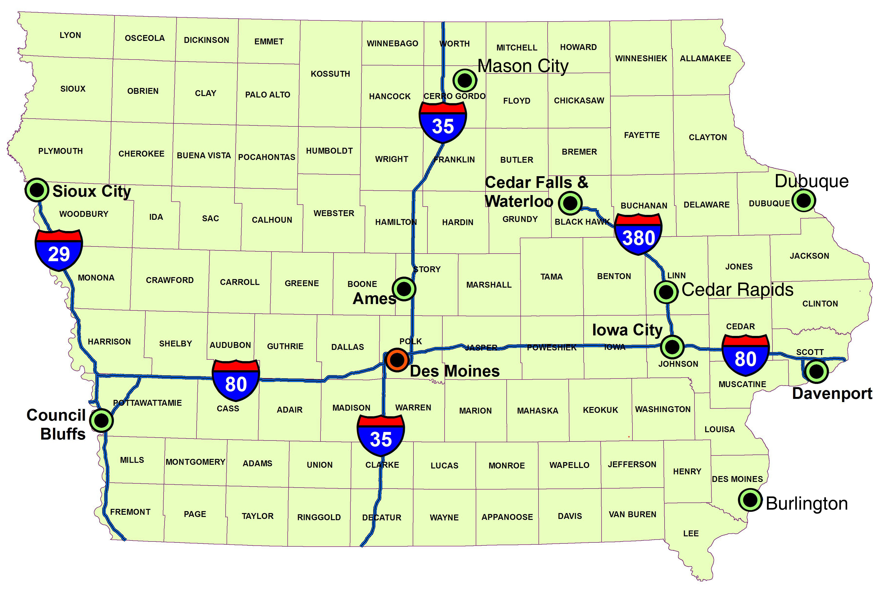 Iowa, showing counties, large cities, and main interstates. Made ArcMap, trimmed in Photoshop.